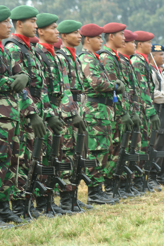 Soldiers of the Indonesian Army